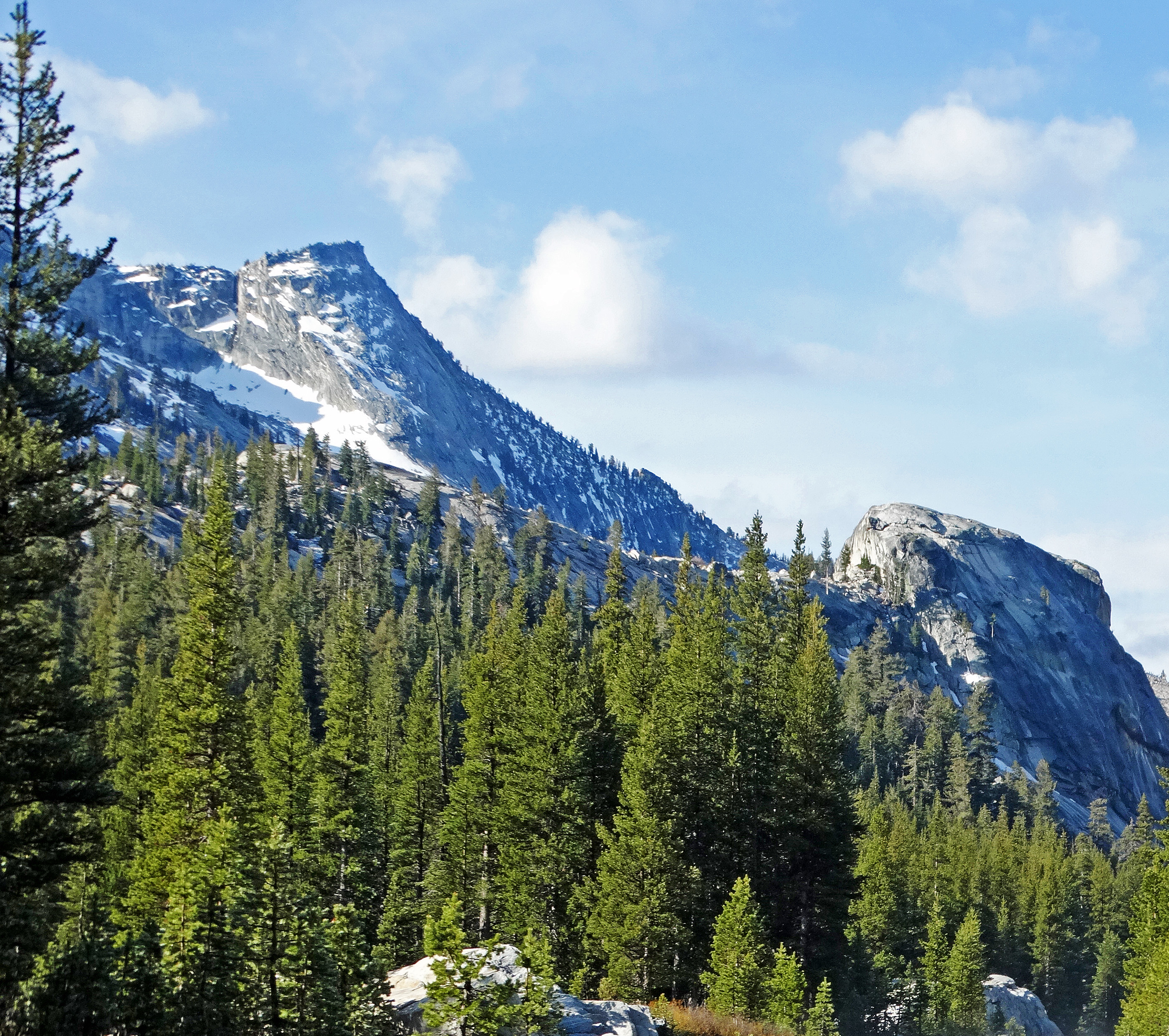 (1 in a multiple picture album) Scenes such as this are available along Tioga Pass Road in Yosemite's high country.